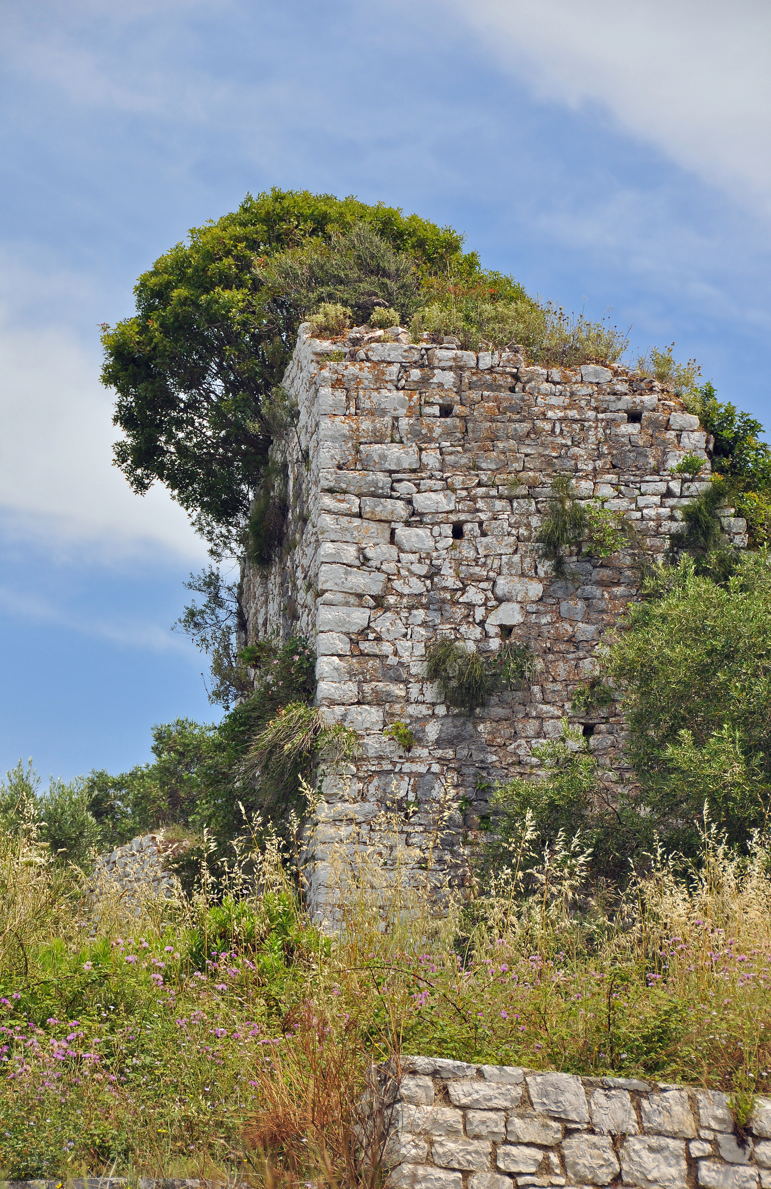 Kassiopi (Corfu island, Greece): the castle